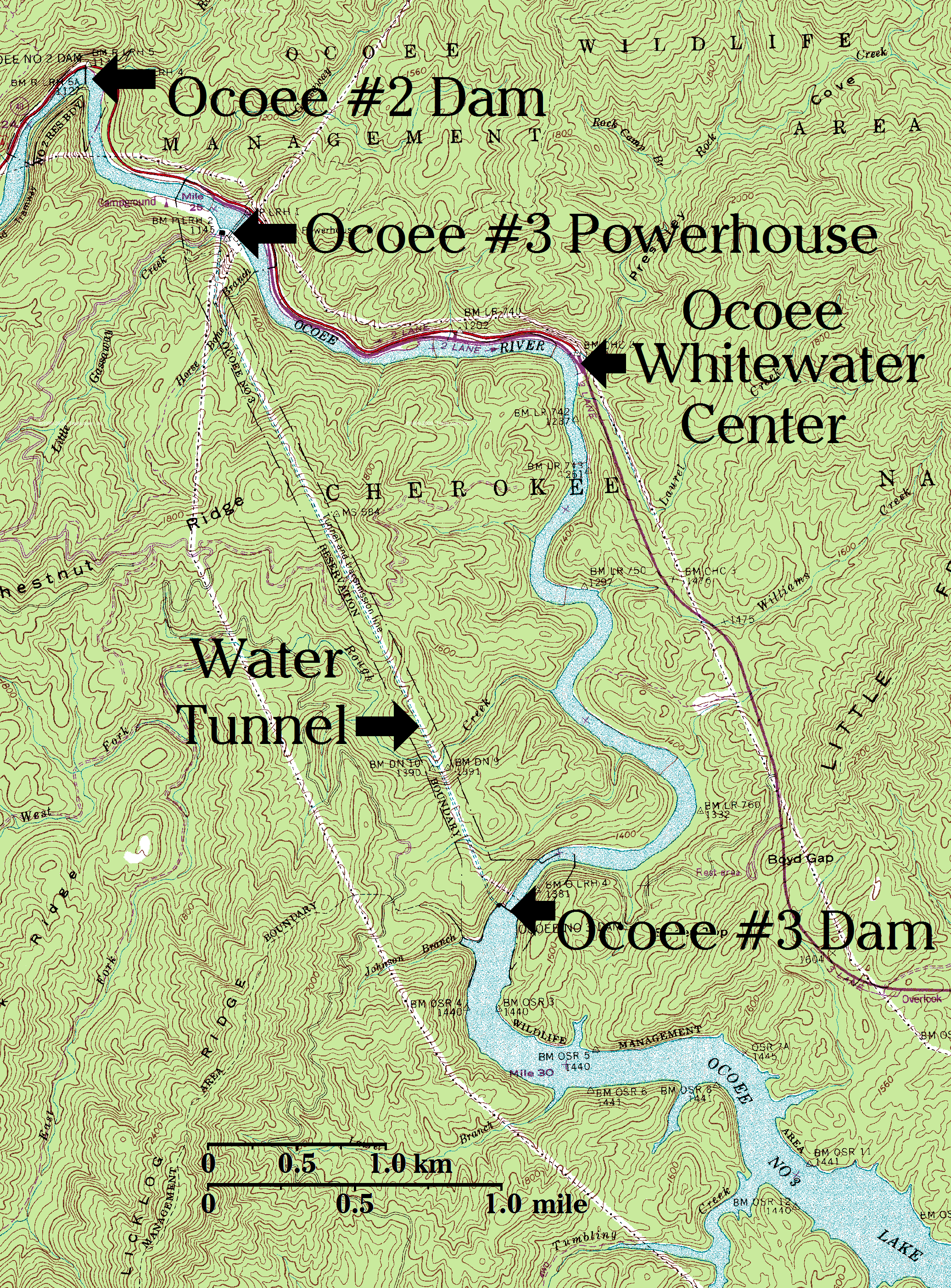 Upper Ocoee River topographical map, with key points labeled in large font. Flows northwestward through the southern Appalachian Mountains of the southeastern United States.